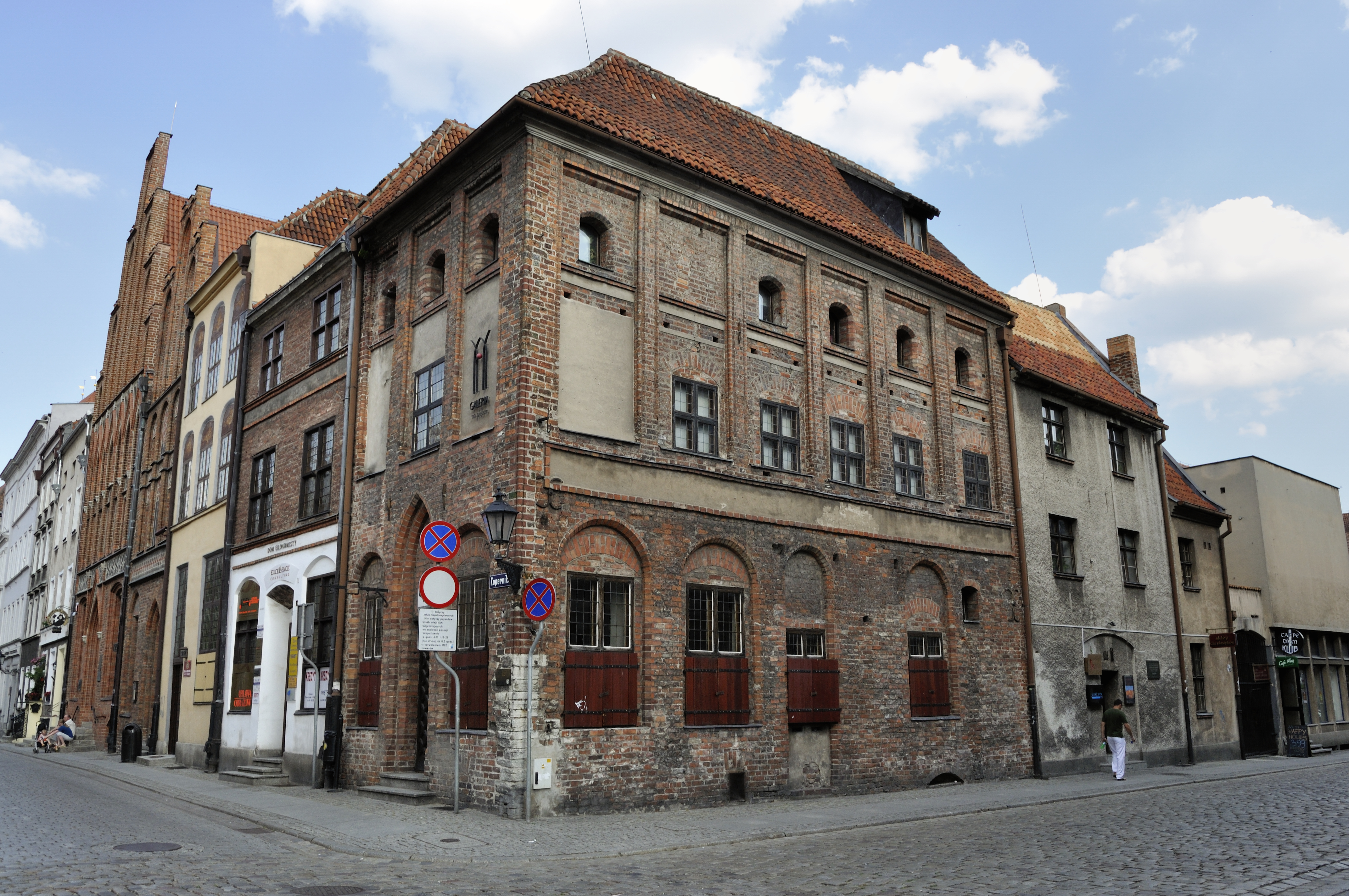 Picture taken in Toruń after Wikimania 2010 conference.